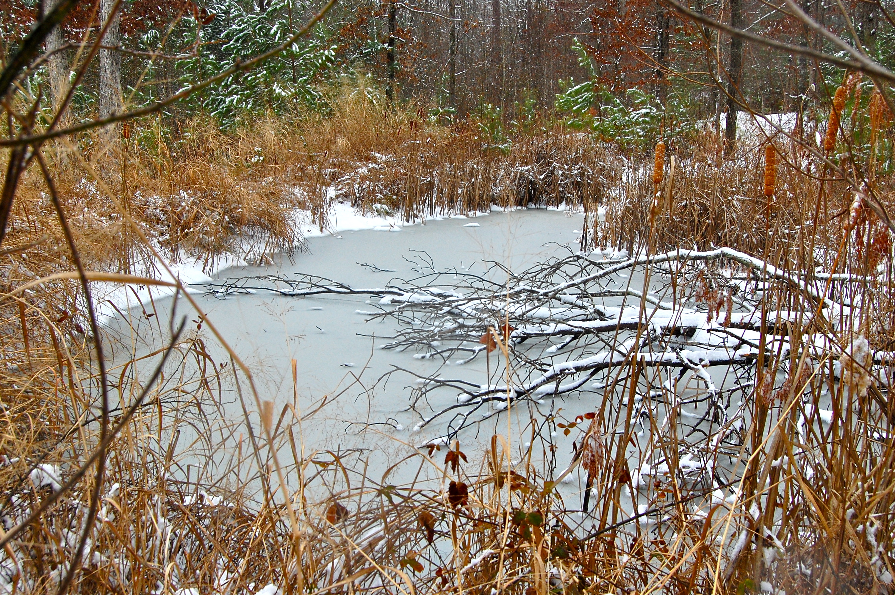 Vernal Pond in the heart of Harbison Sate Forest